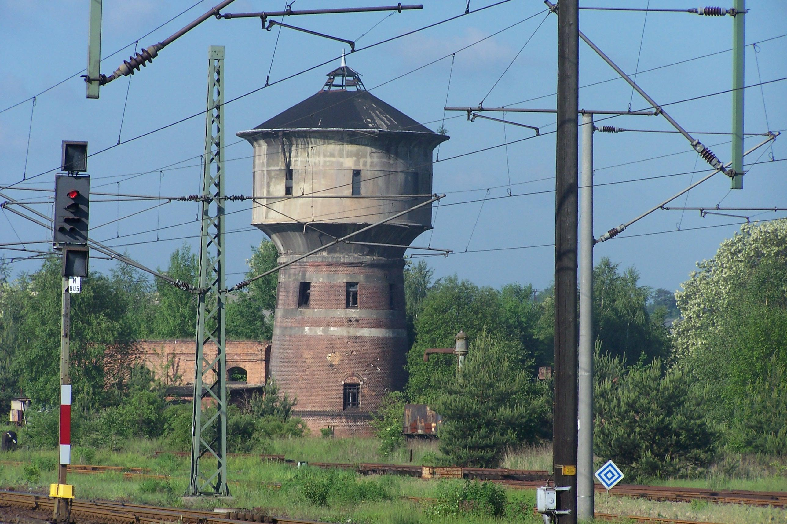 The water tower at the train stations in Gerstungen.